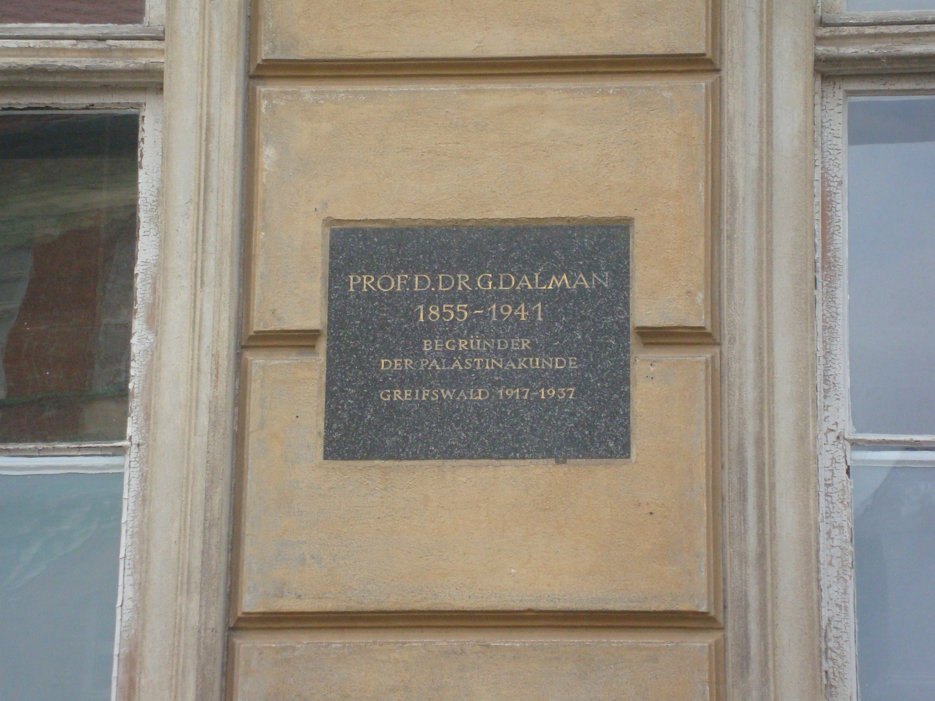 Commemorative plaque for Gustaf Dalman at Bahnhofstraße 46/47 in Greifswald, Germany.